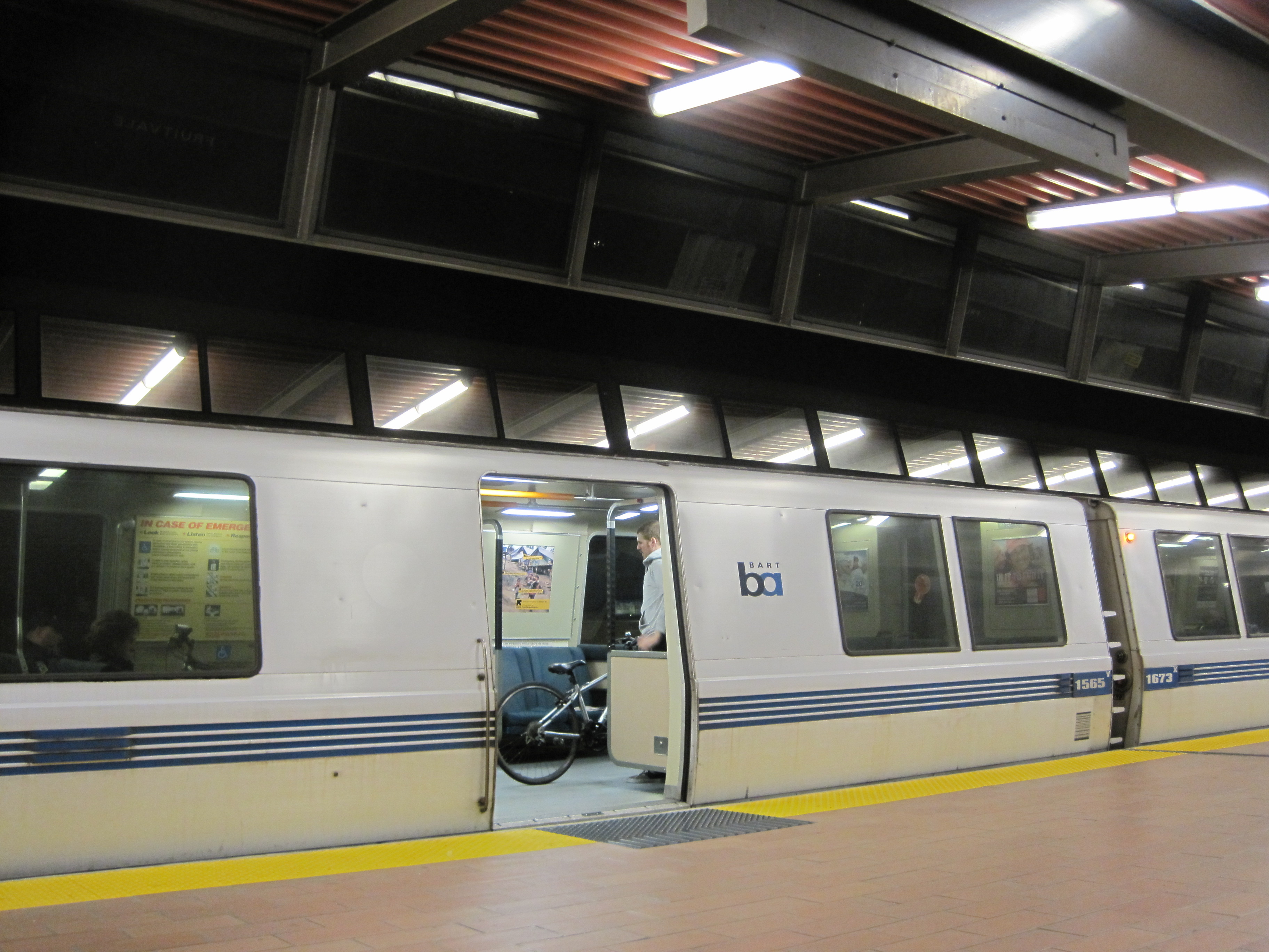 A BART train at the Fruitvale station.